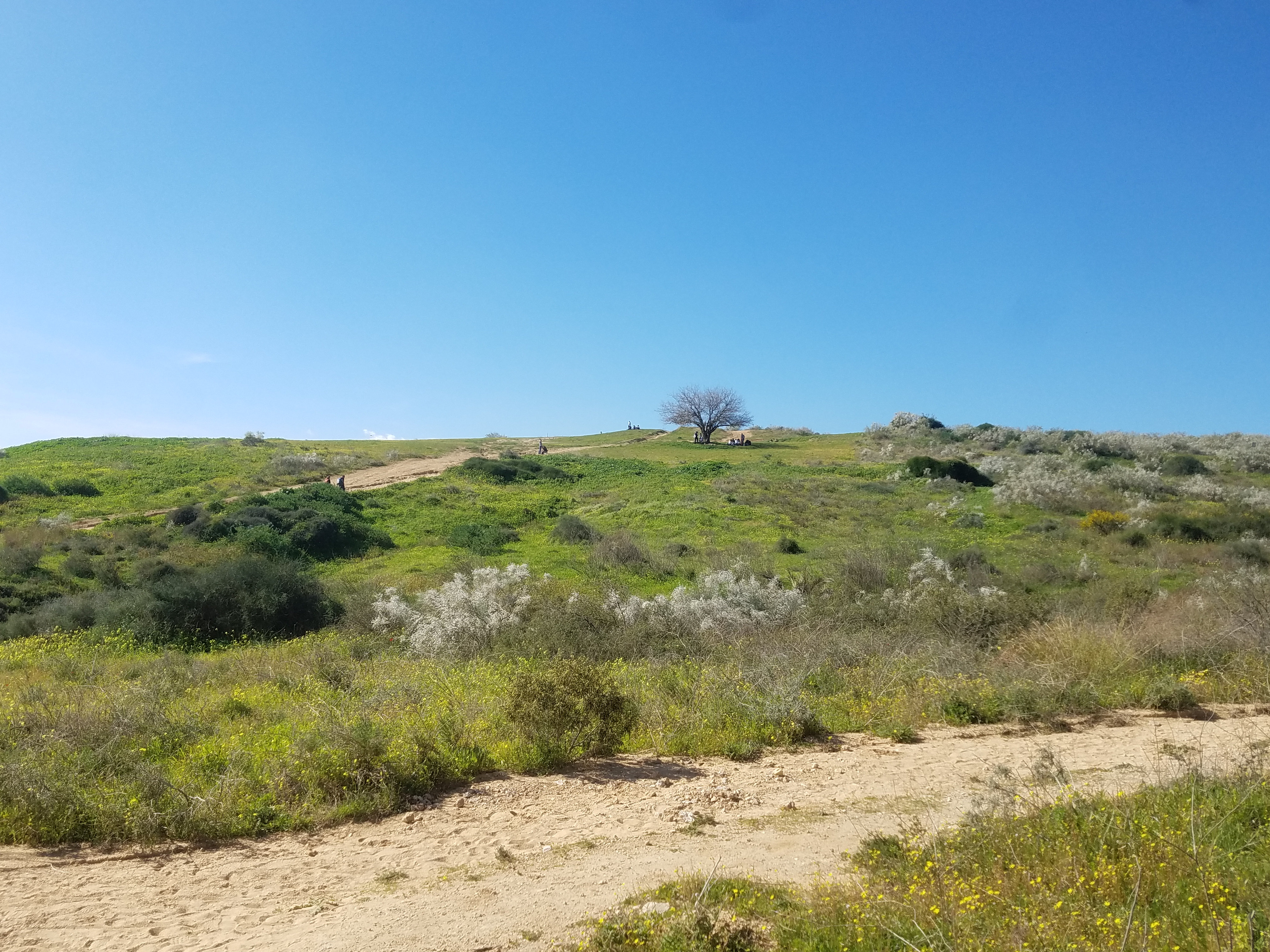 Ness Ziona hills